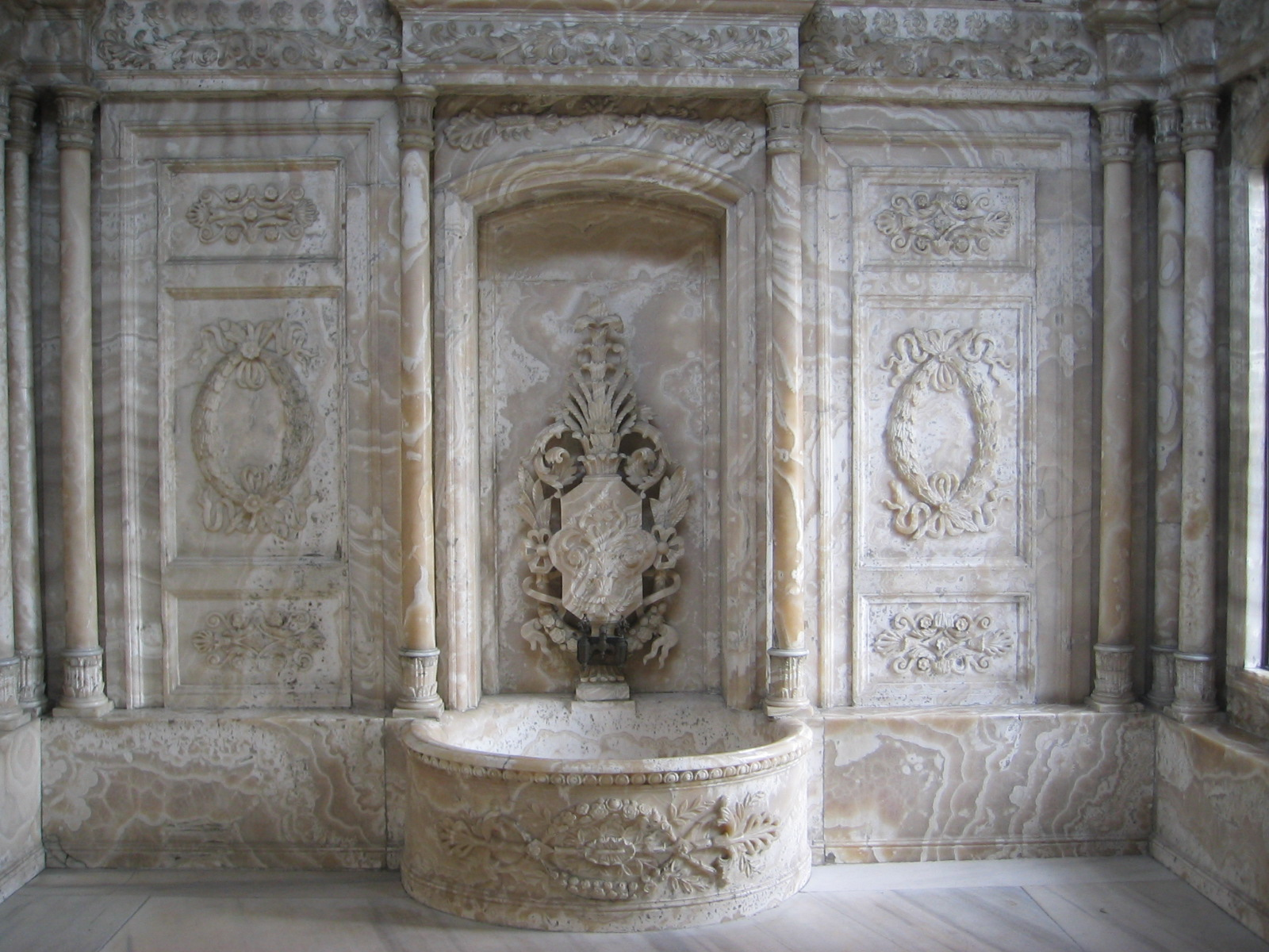 Istanbul, Turkey